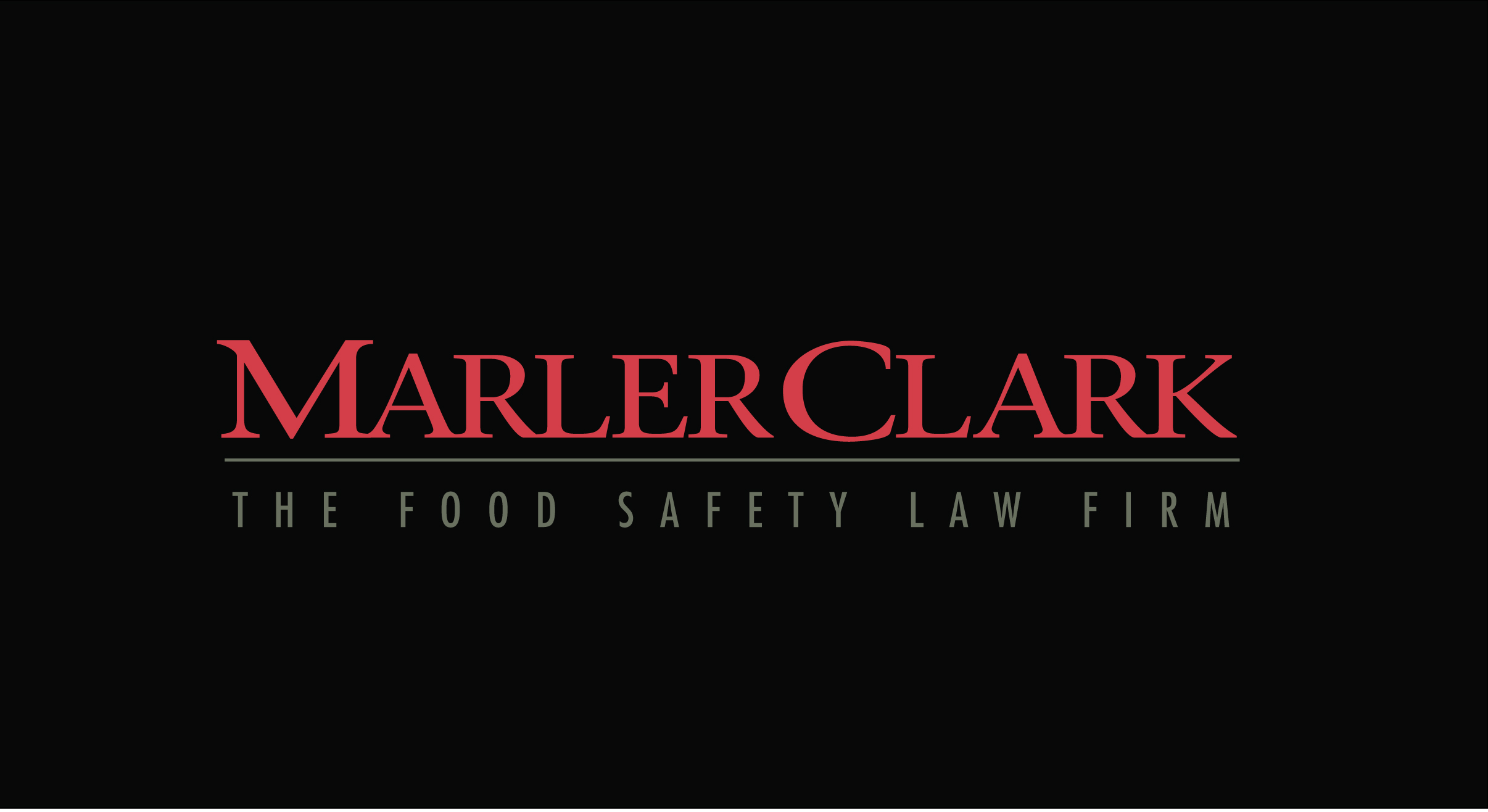 The logo of Marler Clark law firm. Marler Clark specializes in foodborne illness injury law.